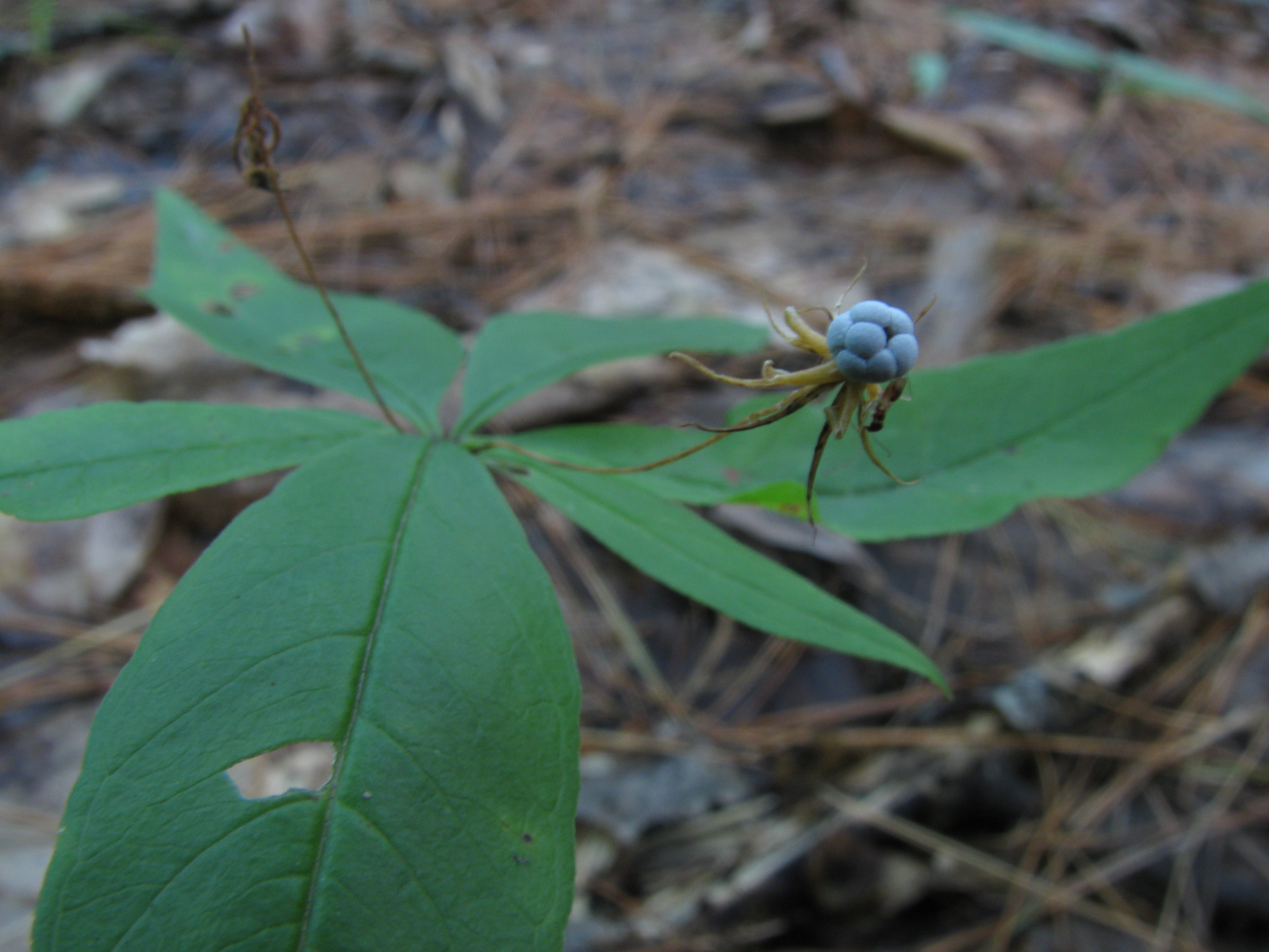 Trientalis borealis (Starflower) fruit.